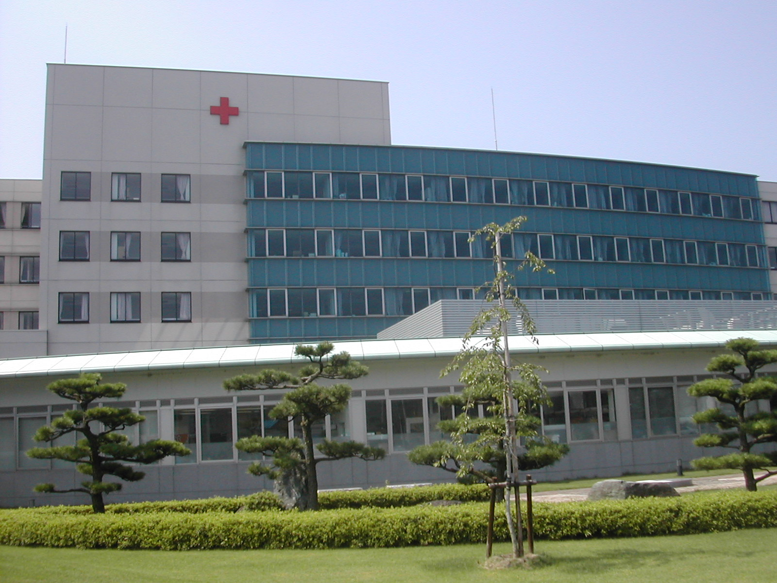 Maizuru Red Cross hospital in Kyoto, Japan.